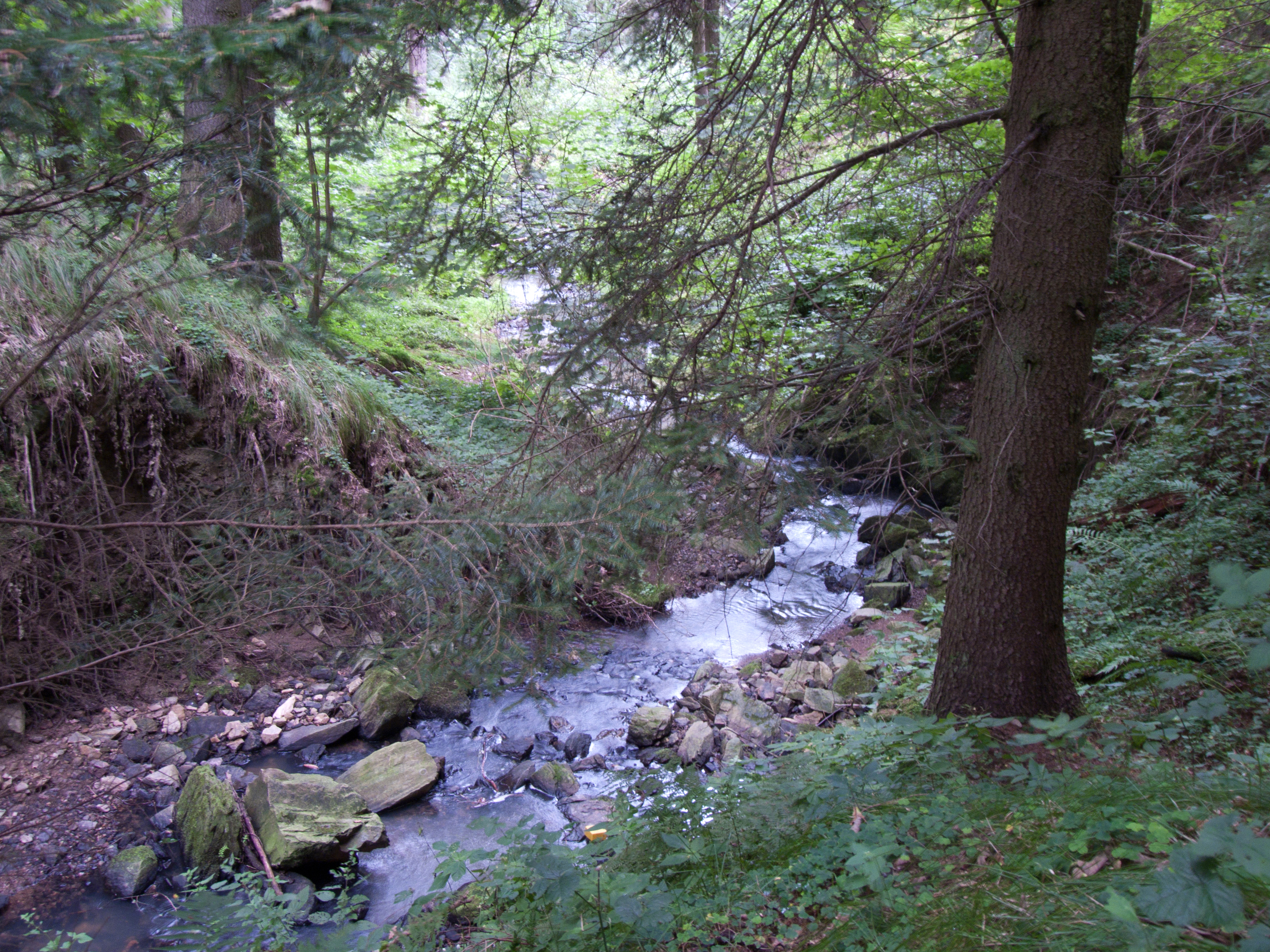 Dobrovodský Creek at the village of Dobrá Voda u Českých Budějovic, České Budějovice District, Czech Republic